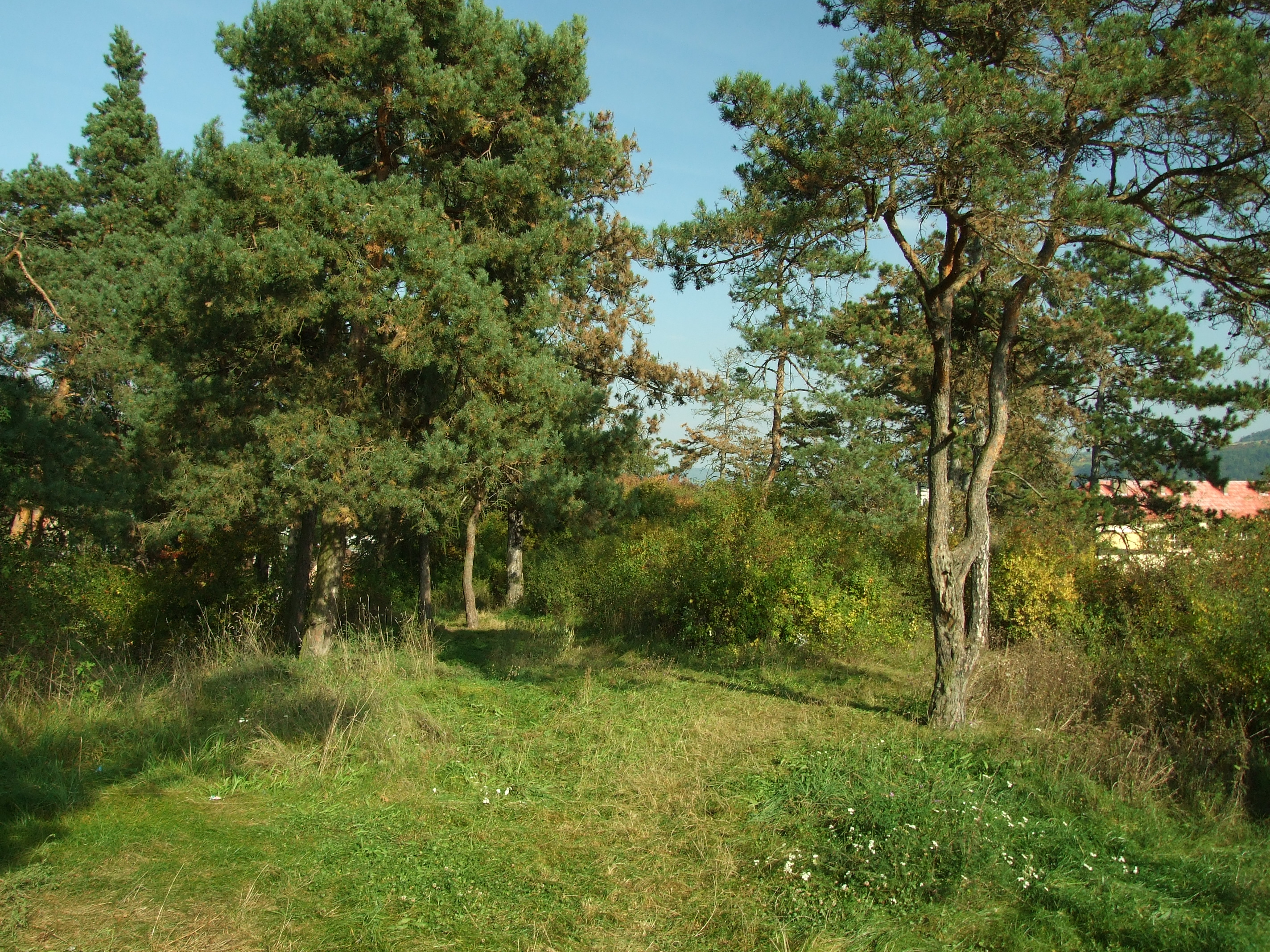 Zahořanský stratotyp natural monument near Králův Dvůr. Central Bohemian Region, CZ